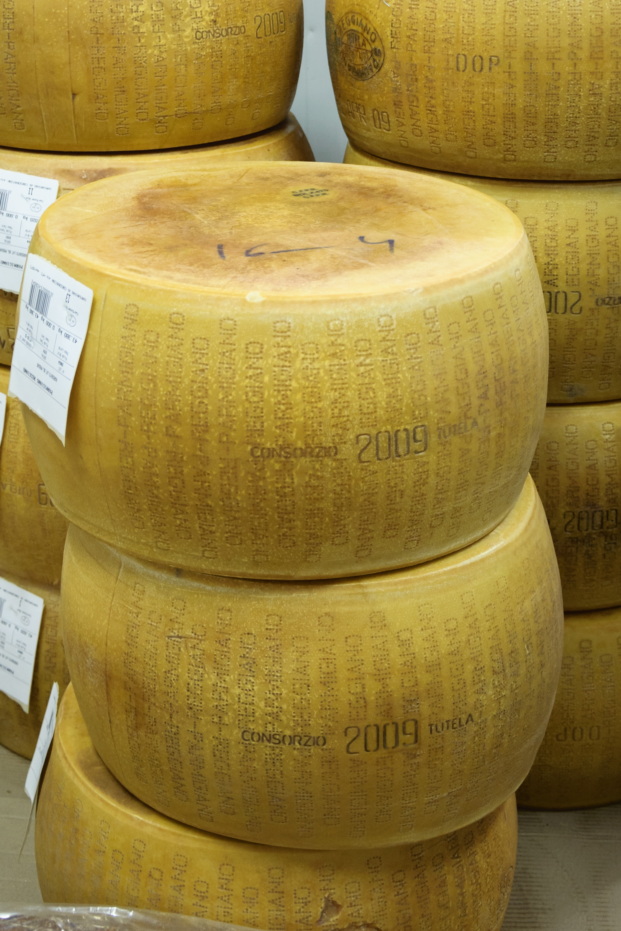 Rounds of Parmigiano-Reggiano on sale in the Rungis International Market, France.